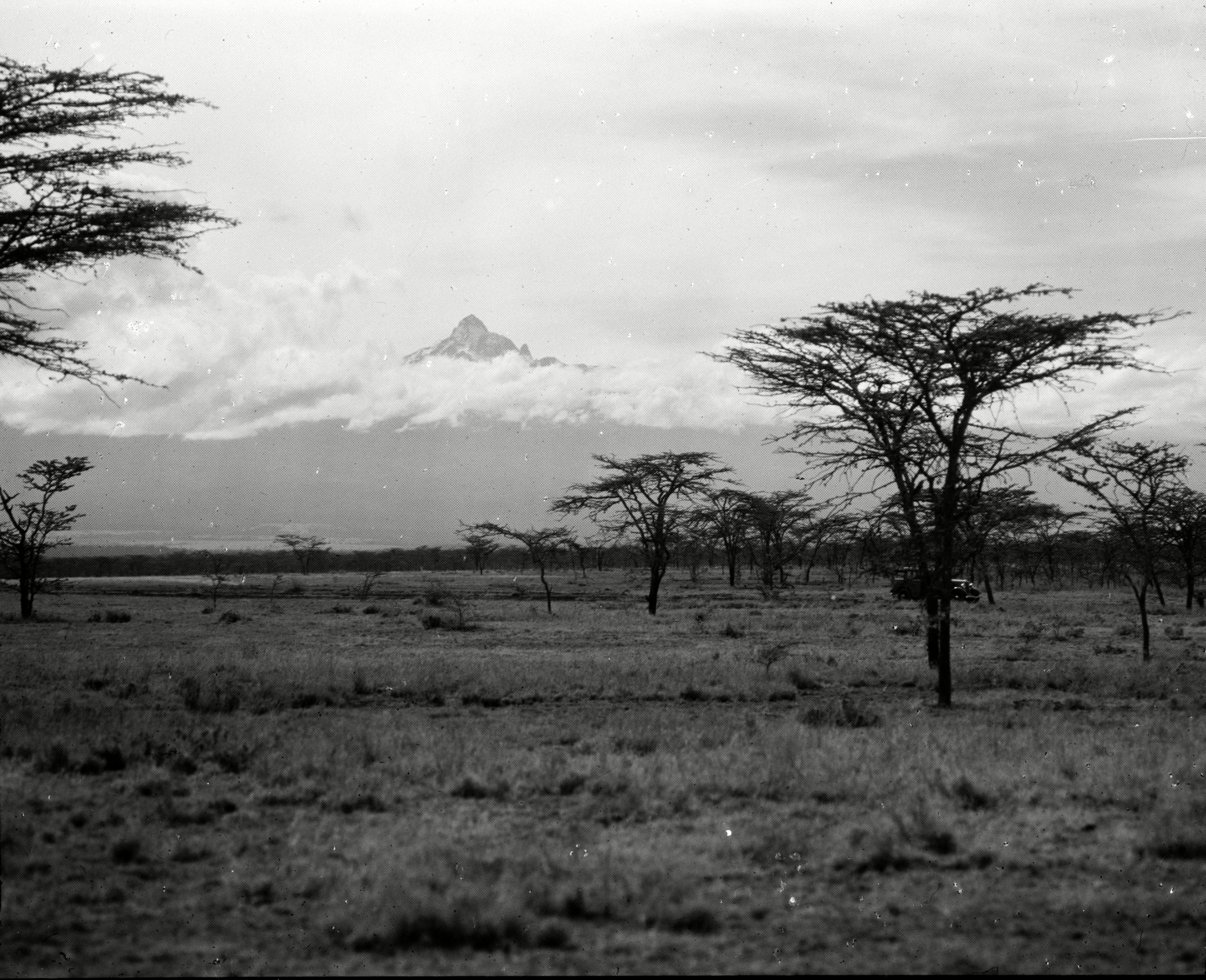 Believed to be in Public Domain From Library of Congress, Prints and Photographs Collections. More on copyright: What does "no known restrictions" mean? ______________________ For information from Creative Commons on proper licensing for images believed to already be in the public domain please-- click here. By using this image from this site, you are acknowledging that you have read all the information in this description and accept responsibility for any use by you or your representatives. You are accepting responsibility for conducting any additional due diligence that may be necessary to ensure your proper use of this image. ________________ Public Domain. Suggested credit: Library of Congress via pingnews. Additional information from source: TITLE: Kenya Colony. Mount Kenya. Snow-capped, telephoto CALL NUMBER: LC-M31- 8471[P&P] REPRODUCTION NUMBER: LC-DIG-matpc-00384 (digital file from original photo) RIGHTS INFORMATION: No known restrictions on publication. MEDIUM: 1 negative : glass, dry plate ; 4 x 5 in. or smaller. CREATED/PUBLISHED: [1936] CREATOR: Matson Photo Service, photographer. NOTES: Title from: Catalogue of photographs & lantern slides ... [1936?]. Caption continues from catalog: Finlay color negative. From catalog: East Africa copyright photos by G. Eric Matson, American Colony Photo Dept. Monotone, Finlay colour, and Infra red photos, taken on a flight with Imperial Airways on a World Trunk route following the Nile from the Delta to the Victoria Nile and the Victoria Lake. Caption on negative: Mt. Kenya. Gift; Episcopal Home; 1978. SUBJECTS: Kenya. FORMAT: Dry plate negatives. PART OF: G. Eric and Edith Matson Photograph Collection REPOSITORY: Library of Congress Prints and Photographs Division Washington, D.C. 20540 USA DIGITAL ID: (digital file from original photo) matpc 00384 CONTROL #: mpc2004000227/PP